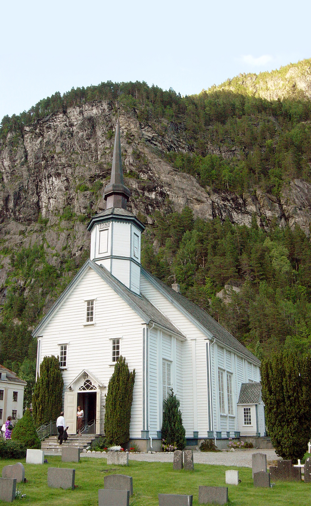 Norddal and the Sylte kirke